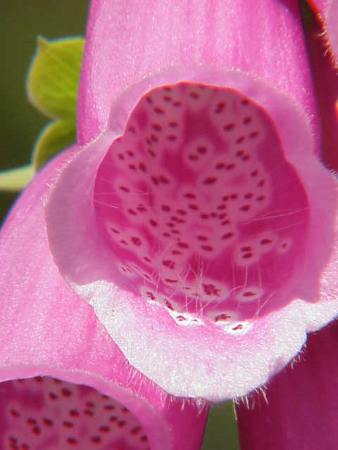 Species: Digitalis purpurea Family: Scrophulariaceae Image No. 7